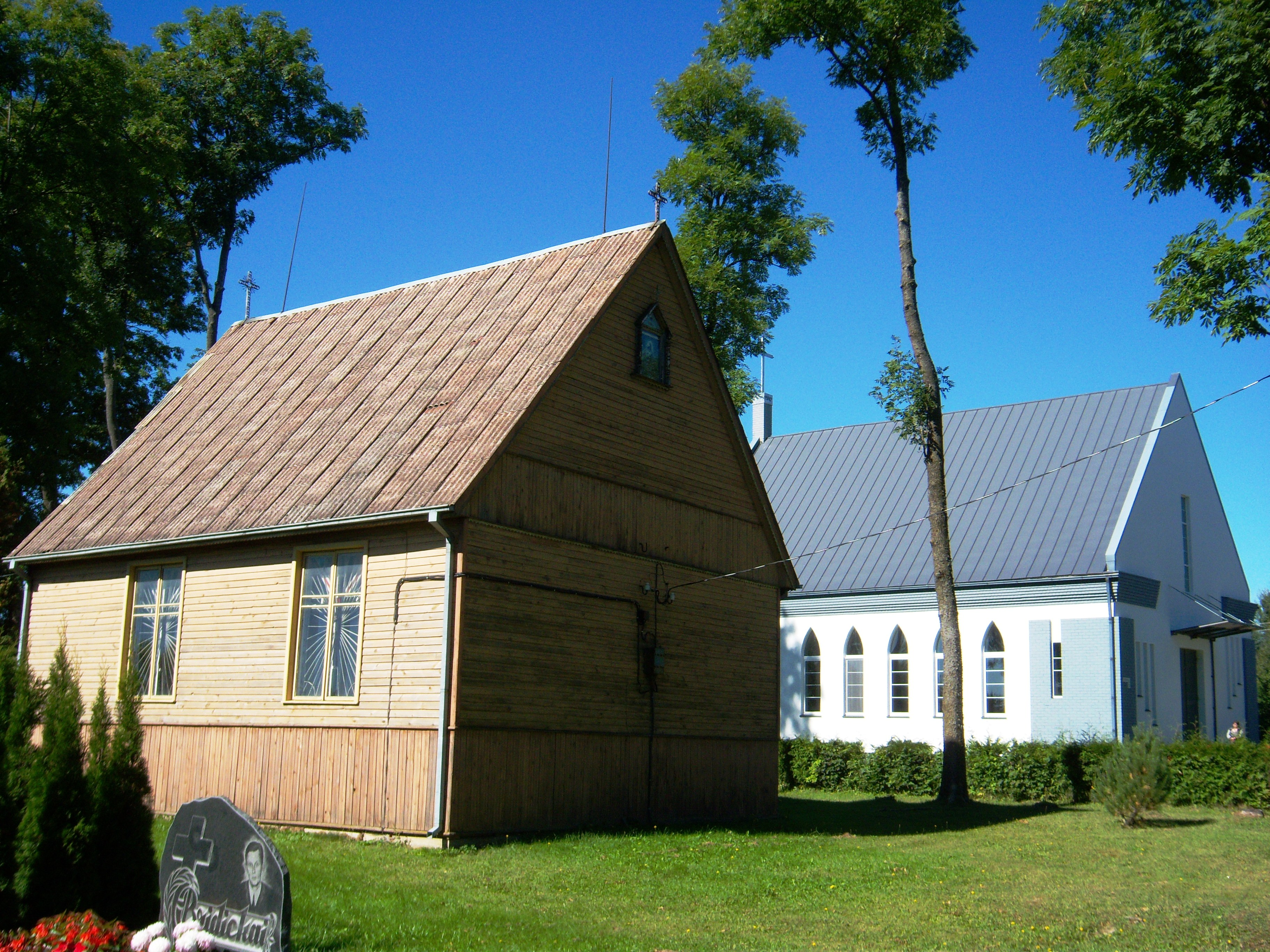 Catholic churches in Žvirgždaičiai, old and new, Šakiai District, Lithuania